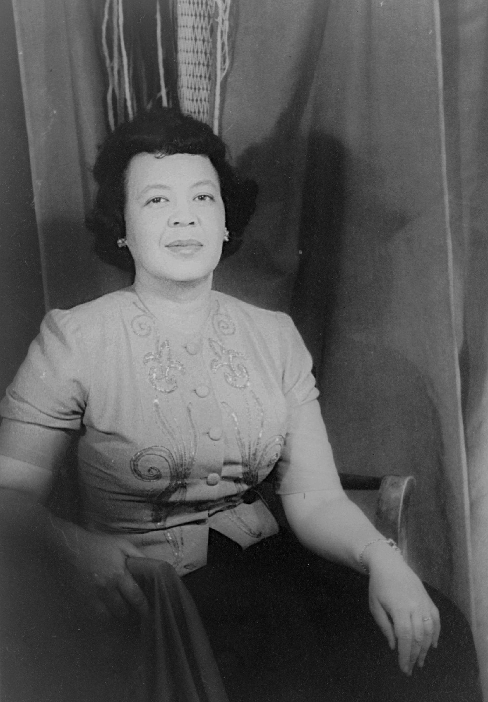 Margaret Allison Bonds (1913–1972) Portrait of Margaret Bonds